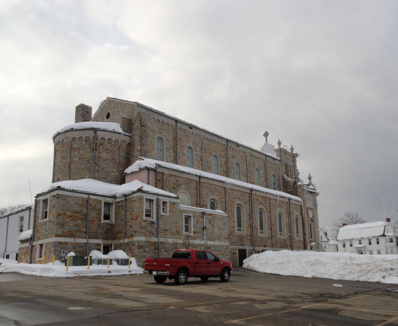 St. Sebastian Church Middletown Connecticut Raymont C. Gorrani, architect